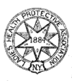 Women's club insignia for Ladies Health Protective Association of New York